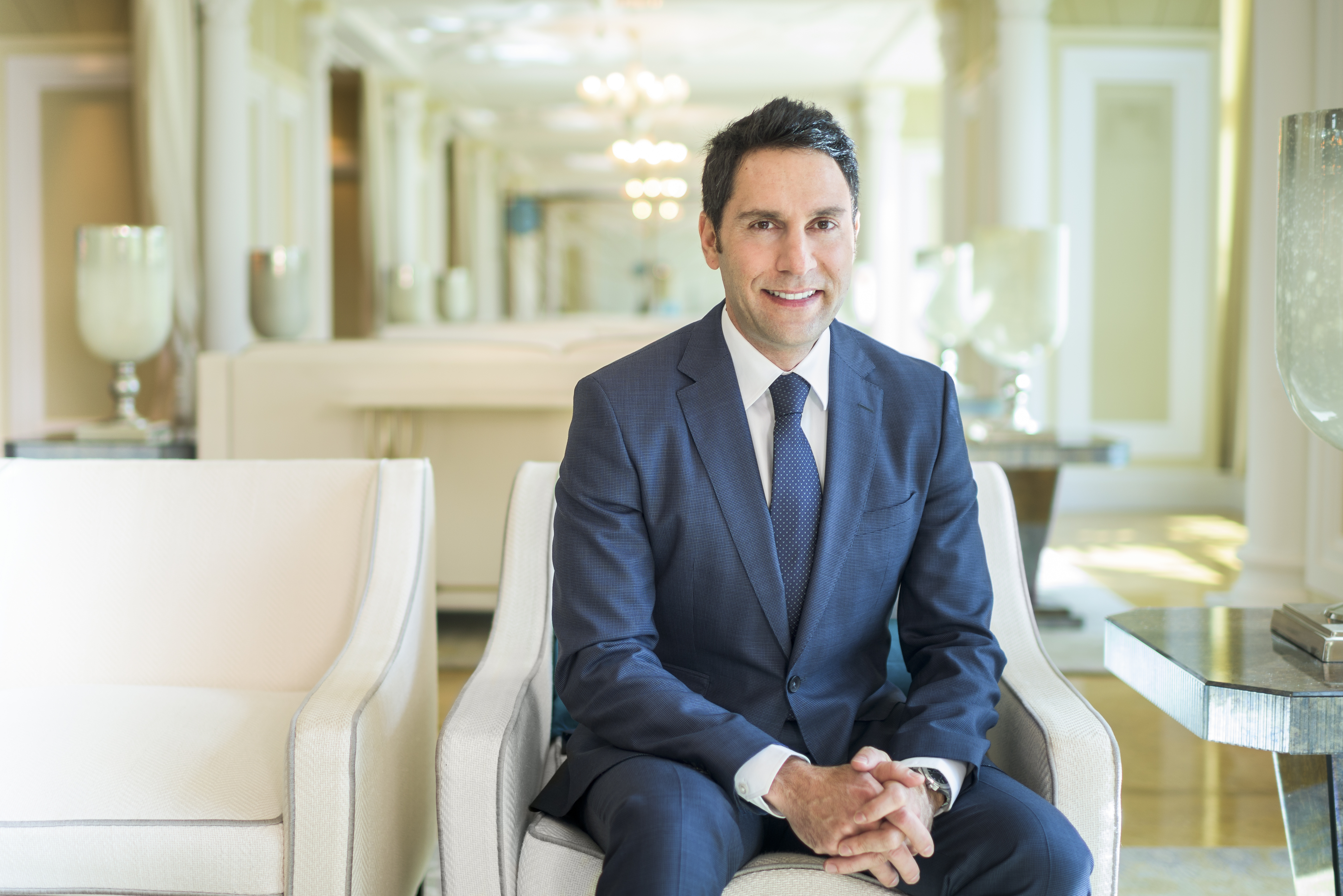 Haitham Mattar Headshot